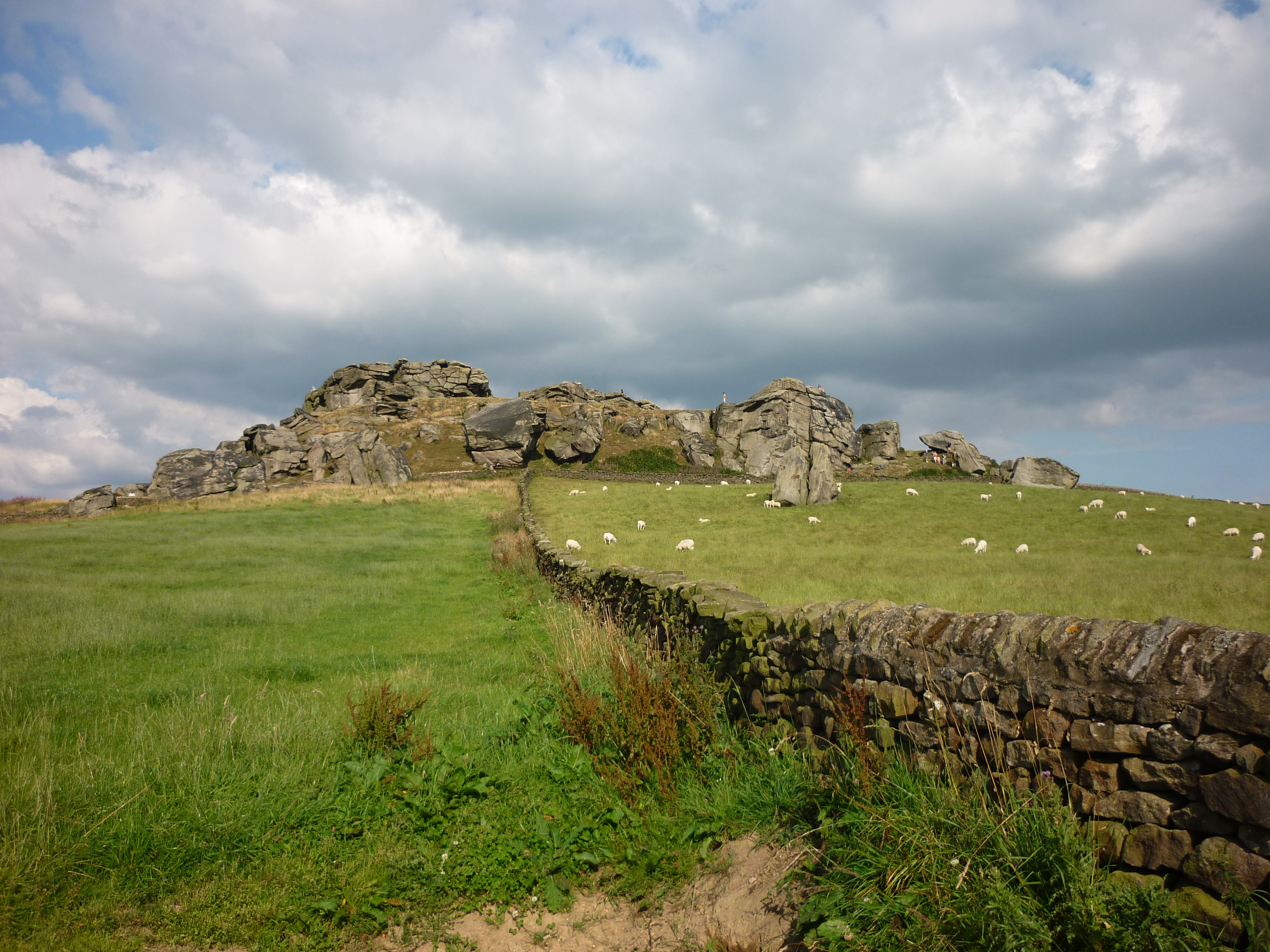 Almscliffe Crag in North Yorkshire, August 2009